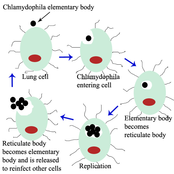 Created by me and released into the public domain